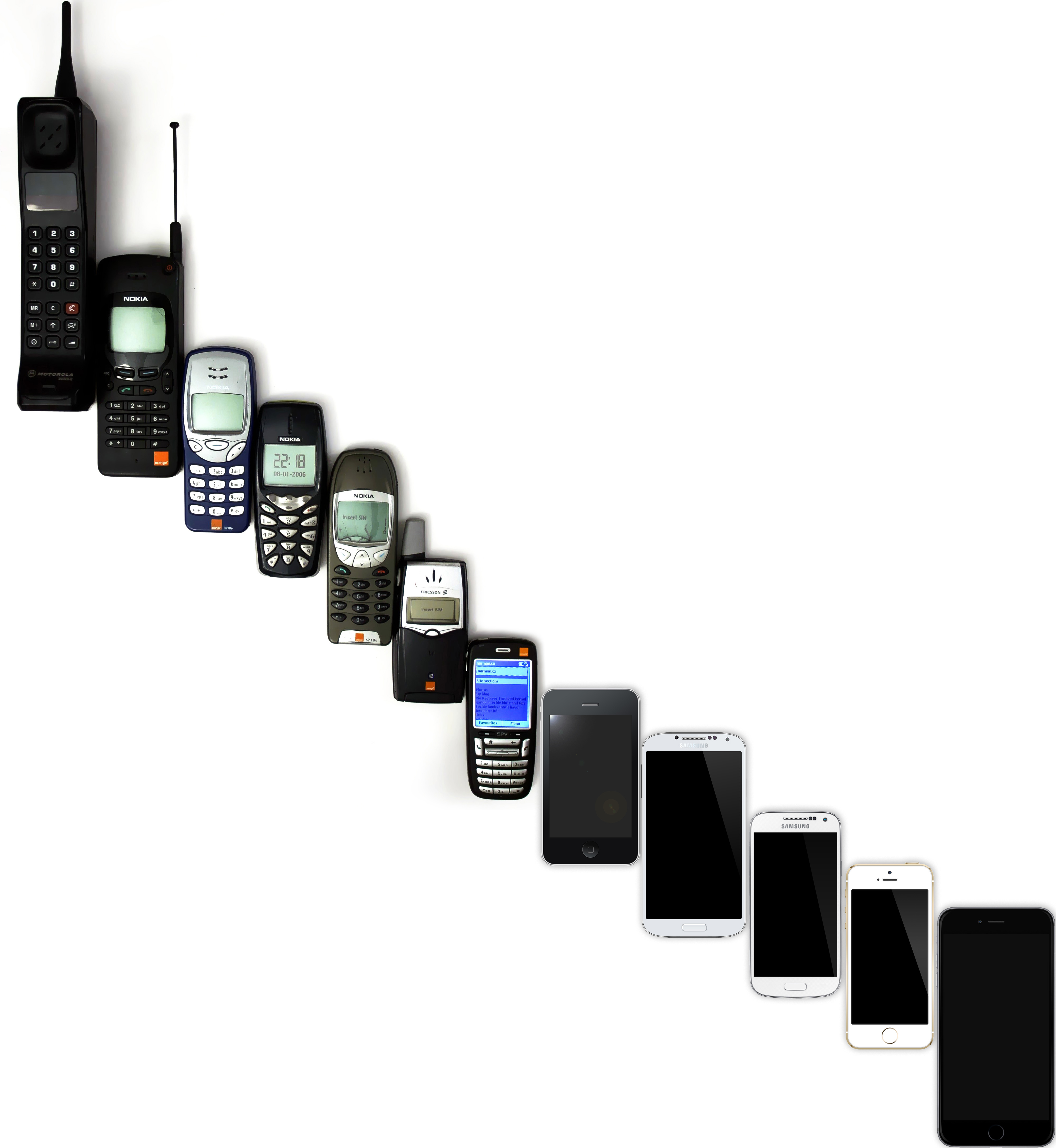 Mobile phone evolution, respectively, from left to right: Motorola 8900X-2, Nokia 2146 orange 5.1, Nokia 3210, Nokia 3510, Nokia 6210, Ericsson T39, HTC Typhoon, iPhone 3G, Samsung Galaxy S4, Samsung Galaxy S4 mini, iPhone 5s, iPhone 6 Plus